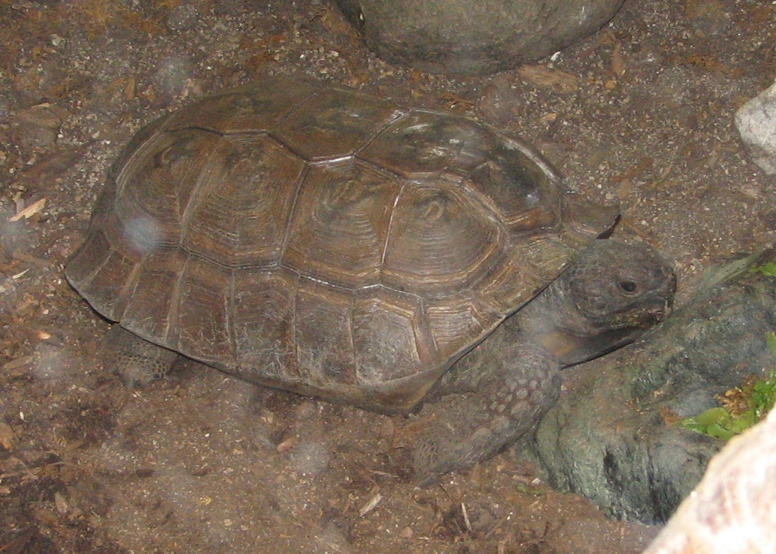 Yellow-foot Tortoise (Geochelone denticulata)at Newport Aquarium